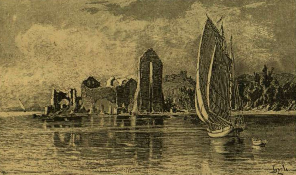 Mirine.